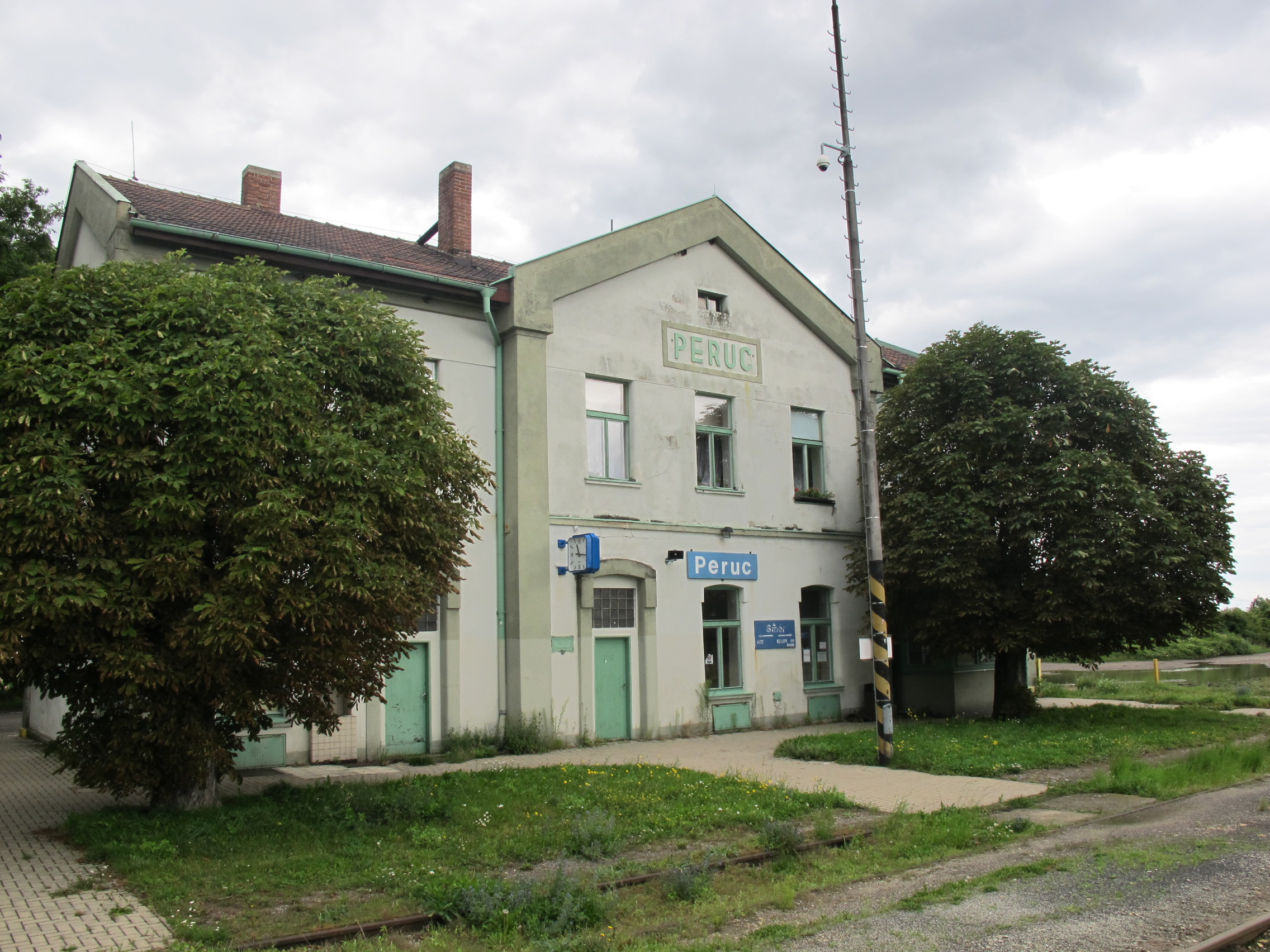 Train station in Peruc